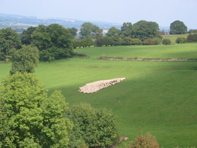 Gathering Sheep. Gathering sheep at a Welsh Sheepdog Society open day.